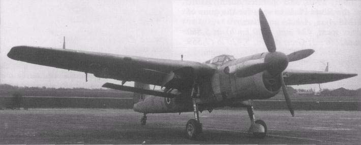 Fairey Barracuda Mk. V torpedo- and dive bomber around 1943 - the caption says Mark III, but this is a Mark V for the following reasons; - squared off wing tips - fillet at the bottom of the vertical fin can just be seen - enlarged "beard" radiator and spinner for the Griffon engine - prominent flame dampre for the Griffon engine - lack of smaller chin radiators for the Griffon engine